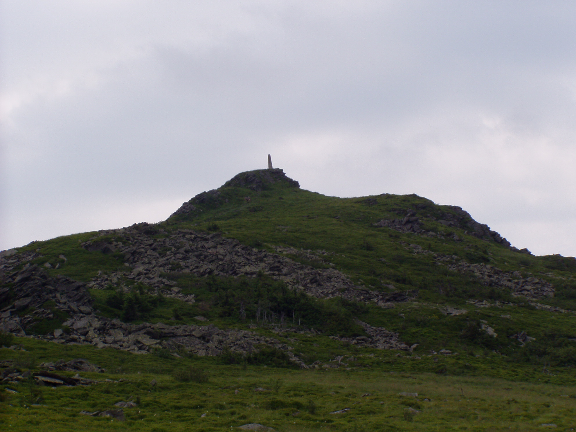 Obelisc on the Pikuy